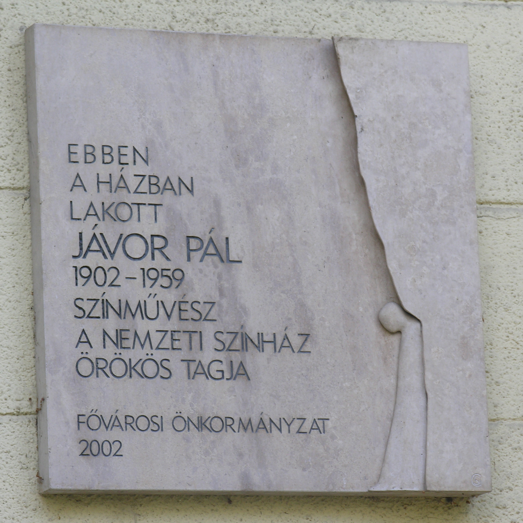 Commemorative plaque of the actor Pál Jávor in Budapest District II, Pasaréti Street No 8